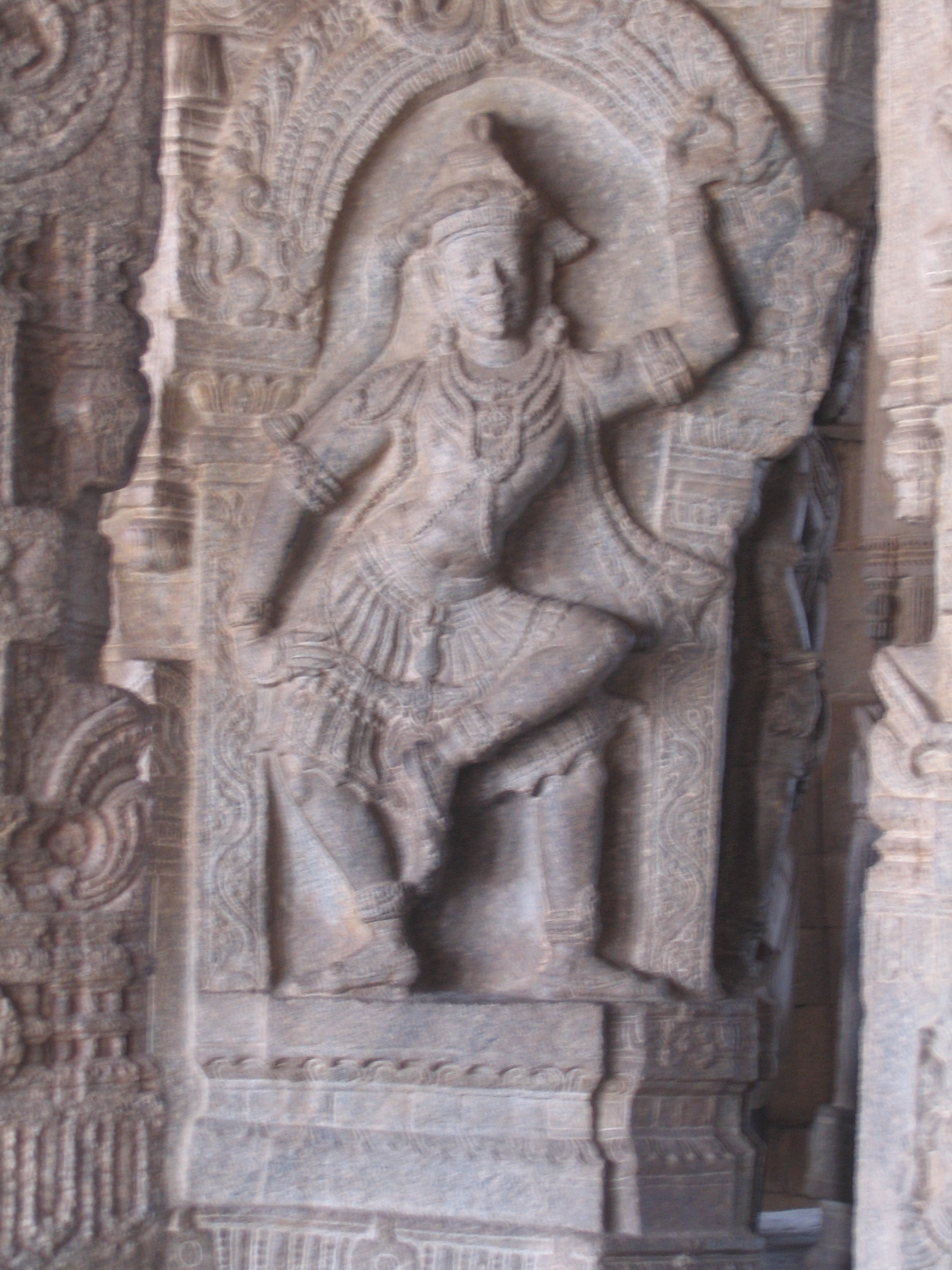 Virabhadra temple